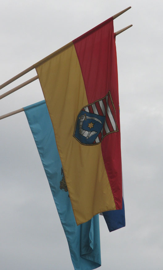 Flag of Karlovac County, Croatia